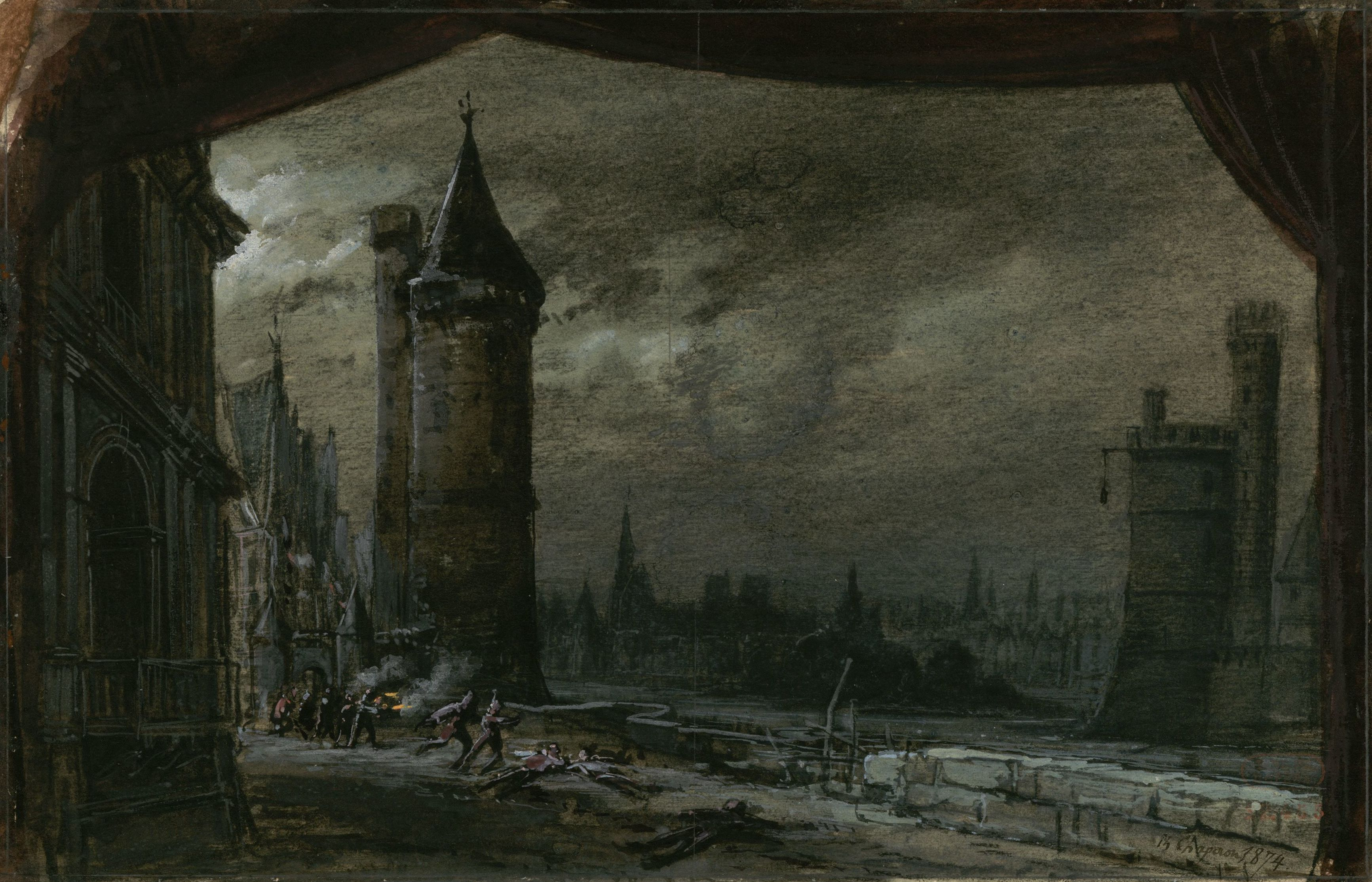 Set design for Act V, Scene 2 of Les Huguenots, for the 26 April 1875 performance at the Théâtre national de l'Opéra - Palais Garnier.